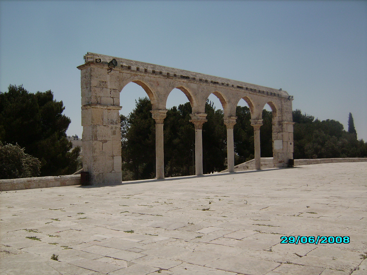 Al-Aqsa Mosque